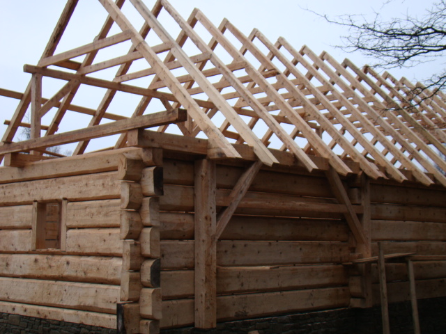 Galician market square in Skansen, Sanok